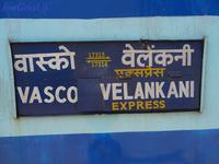 Name Plate